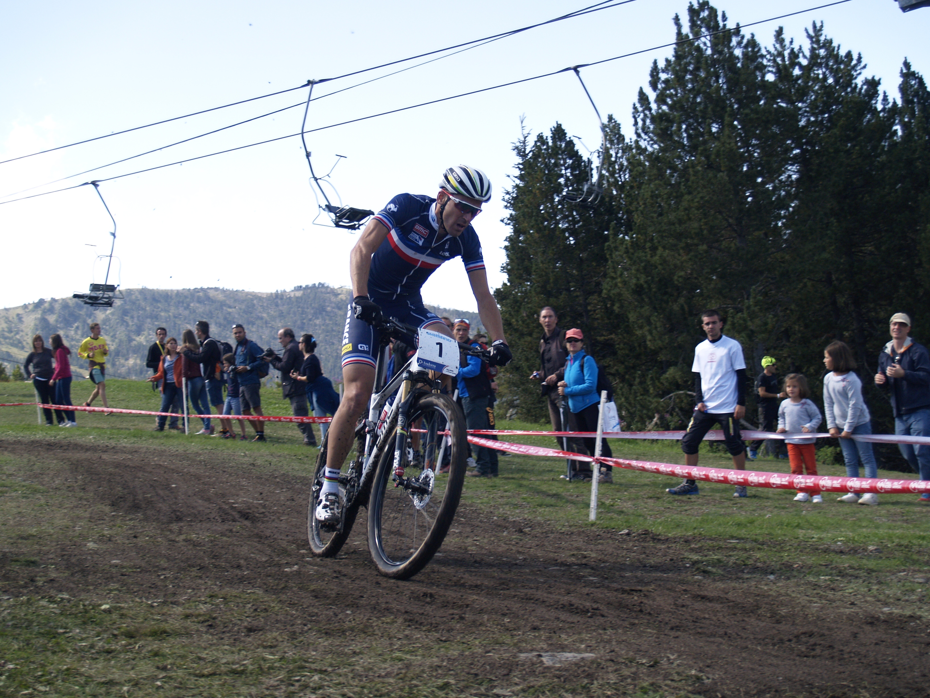 Julien Absalon in the 2015 UCI Mountain Bike and Trials World Championships